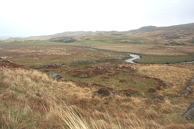 Kilmory Glen The rust-coloured vegetation seems to mark masonry outlining the site of almost-vanished buildings, and the adjacent flat ground which was probably cultivated has reverted to rough boggy grass.